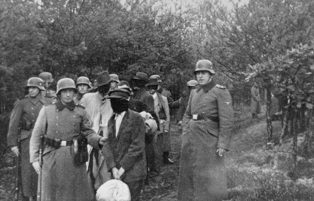 Mass execution site in Palmiry near Warsaw. Polish prisoners with blindfolds photographed before the execution. Between the years 1939 and 1941 approx. 1700 Poles and Jews were killed by Nazi-Germans in Palmiry. This photo was obtained by Polish resistance movement.